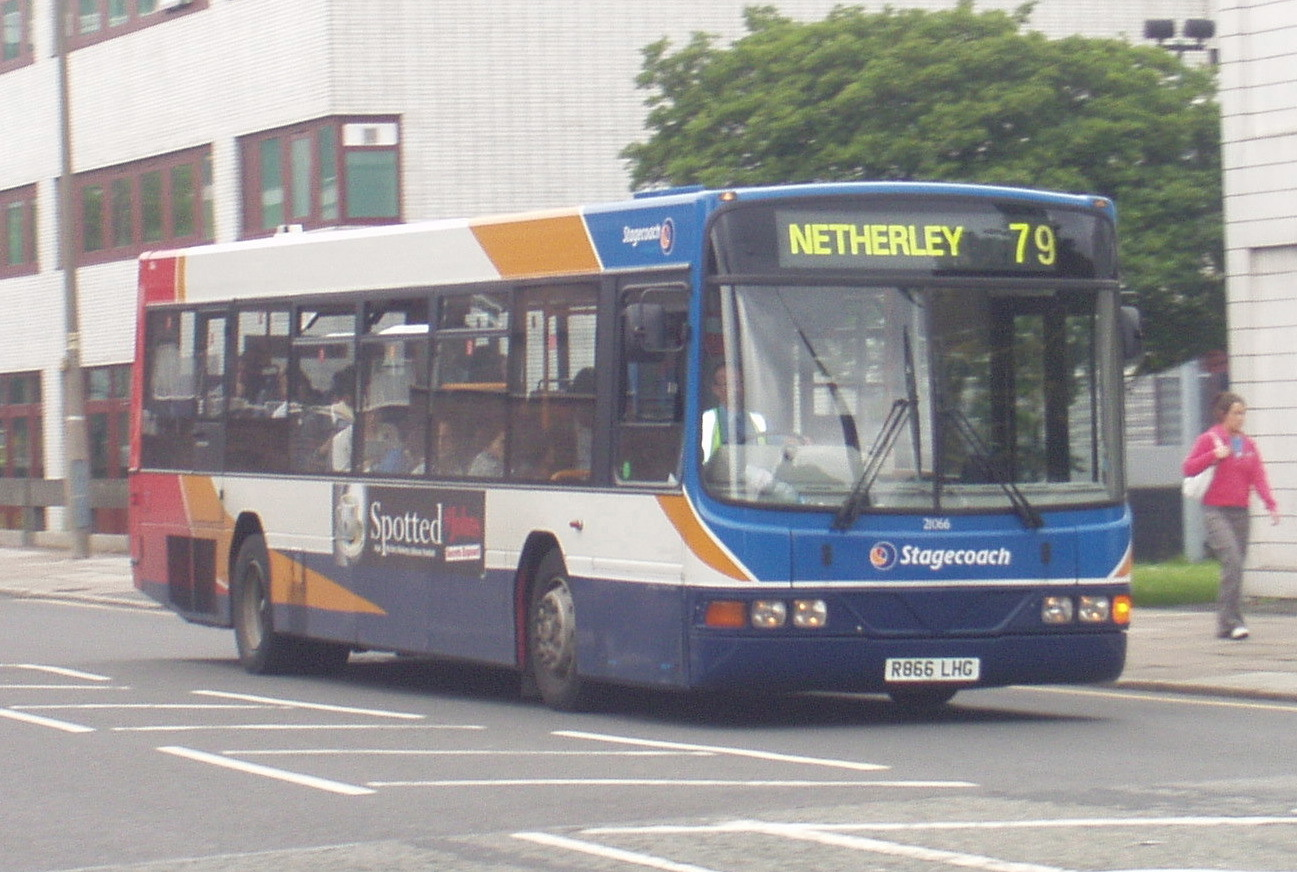 Stagecoach Merseyside Volvo B10L with Wright Liberator bodywork, number 21066 registered R866 LHG, pictured on Brownlow Hill, Liverpool.